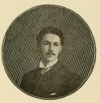 Josep Sebastià Pons' picture (taken from the Revue Catalane) (1911)